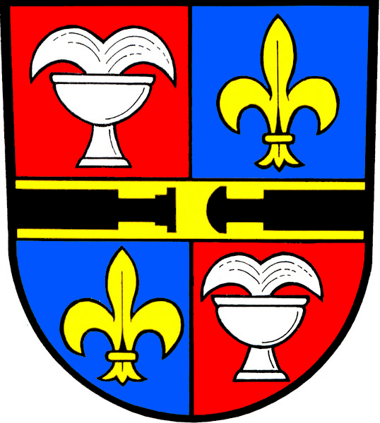 Municipal coat of arms of Studénka town, Nový Jičín District, Czech Republic.